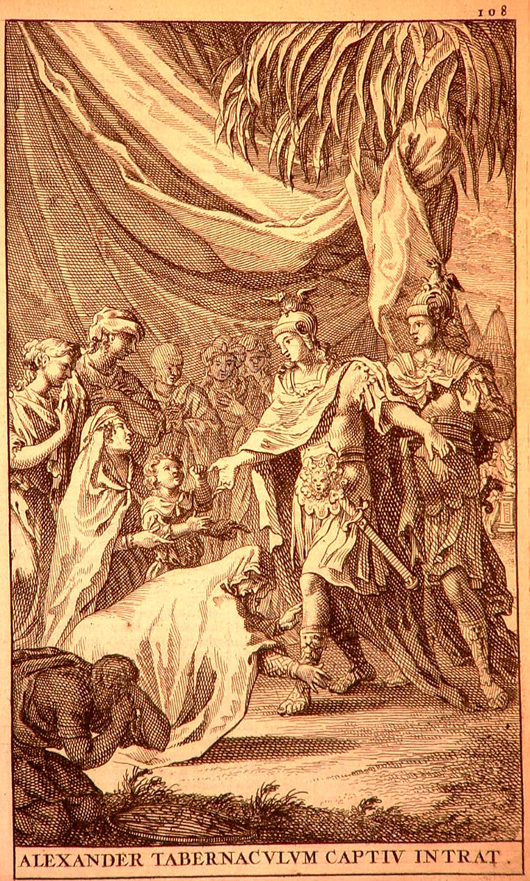 Alexander and Hephaistion enter within the tent of the captive royal family of Darius - the queens mistake Hephaistion for Alexander, but Alexander responds, He too is Alexander.